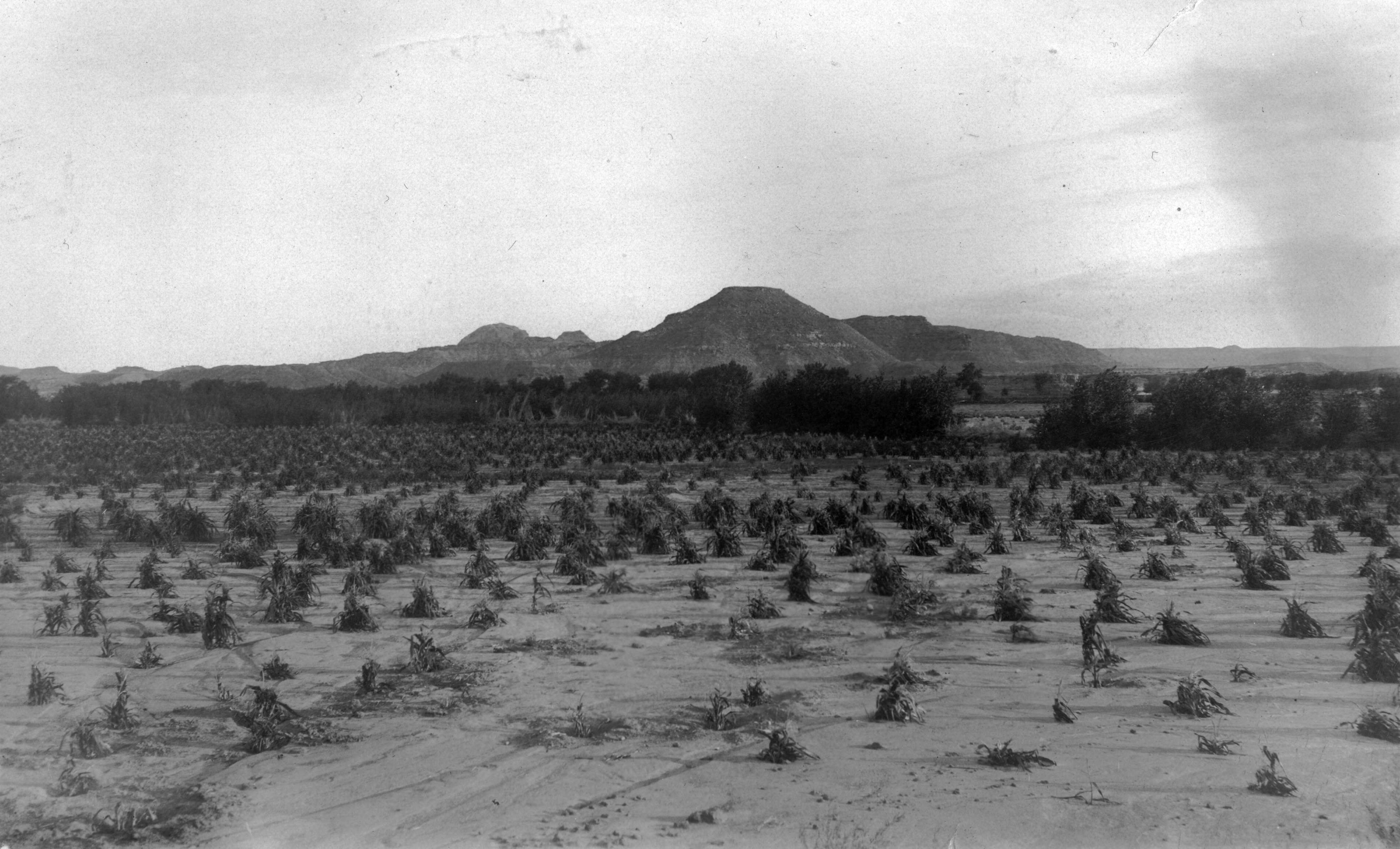 View of a corn field on the Native American (Navajo) reservation, Arizona or New Mexico. Diné bizaad: Naabeehó bidáʼákʼeh, 1880 yiihah yę́ędą́ą́ʼ éélkid.